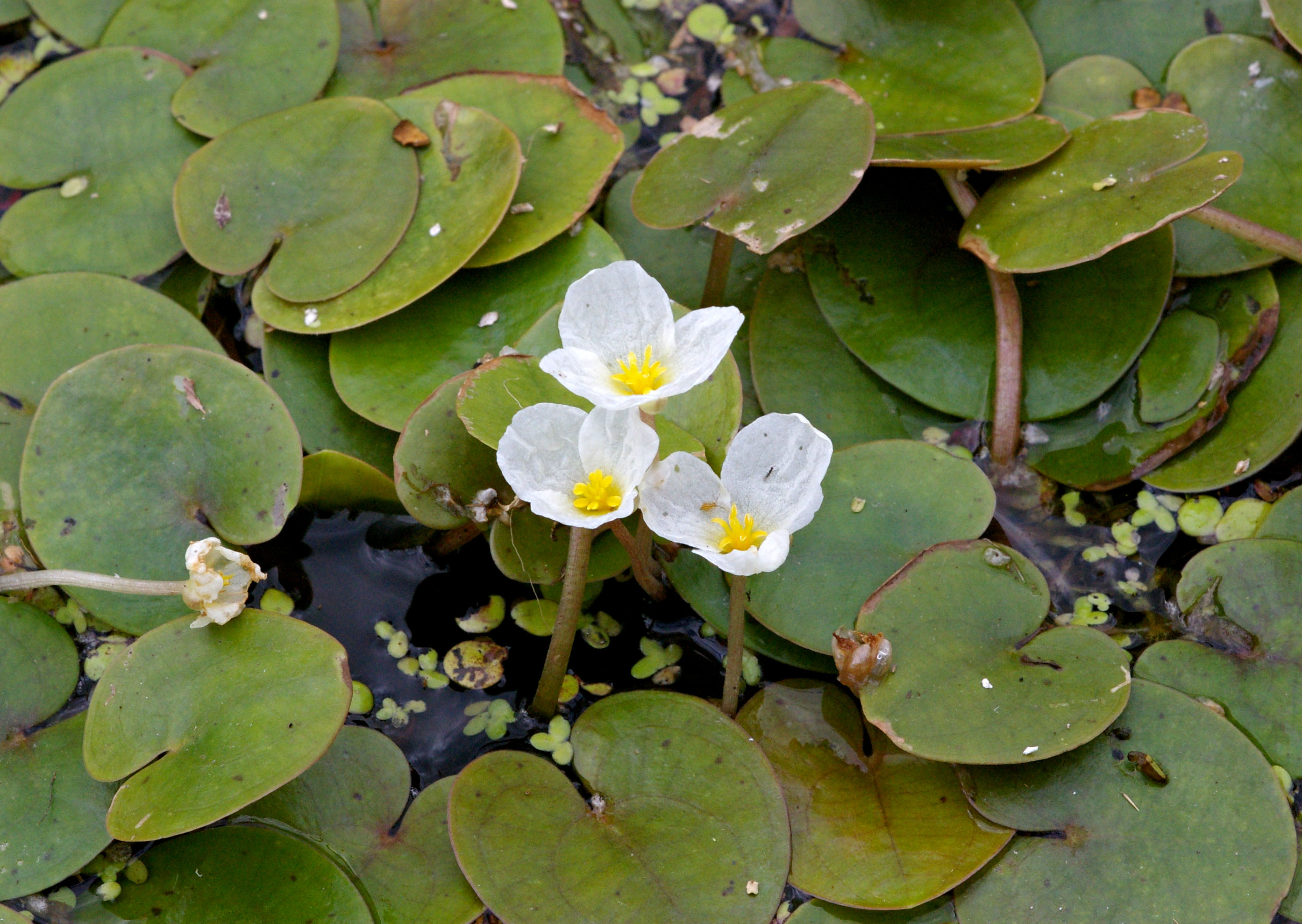 Blossoms and swimming leaves of Hydrocharis morsus-ranae.